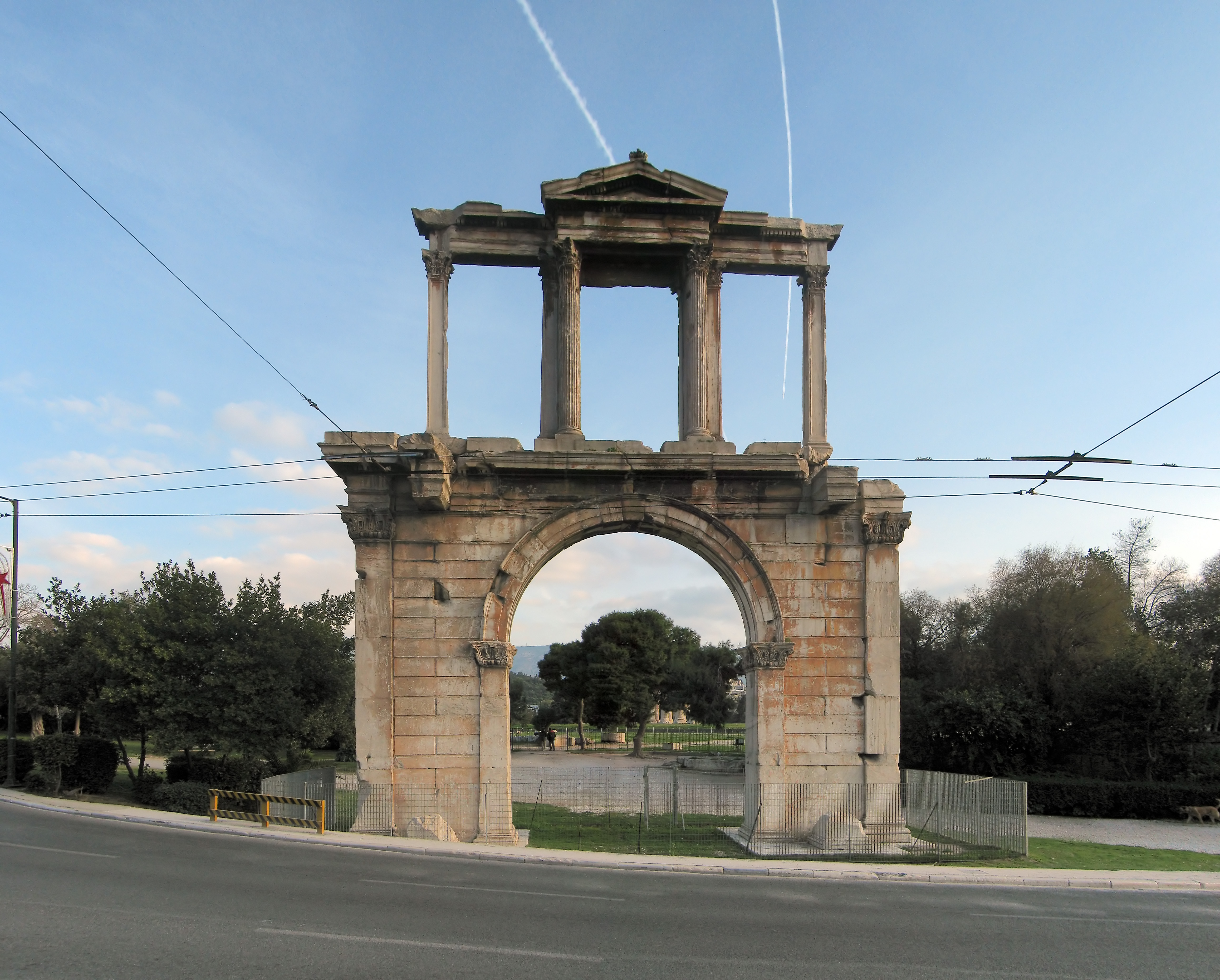 The Hardrian gate at Athens.